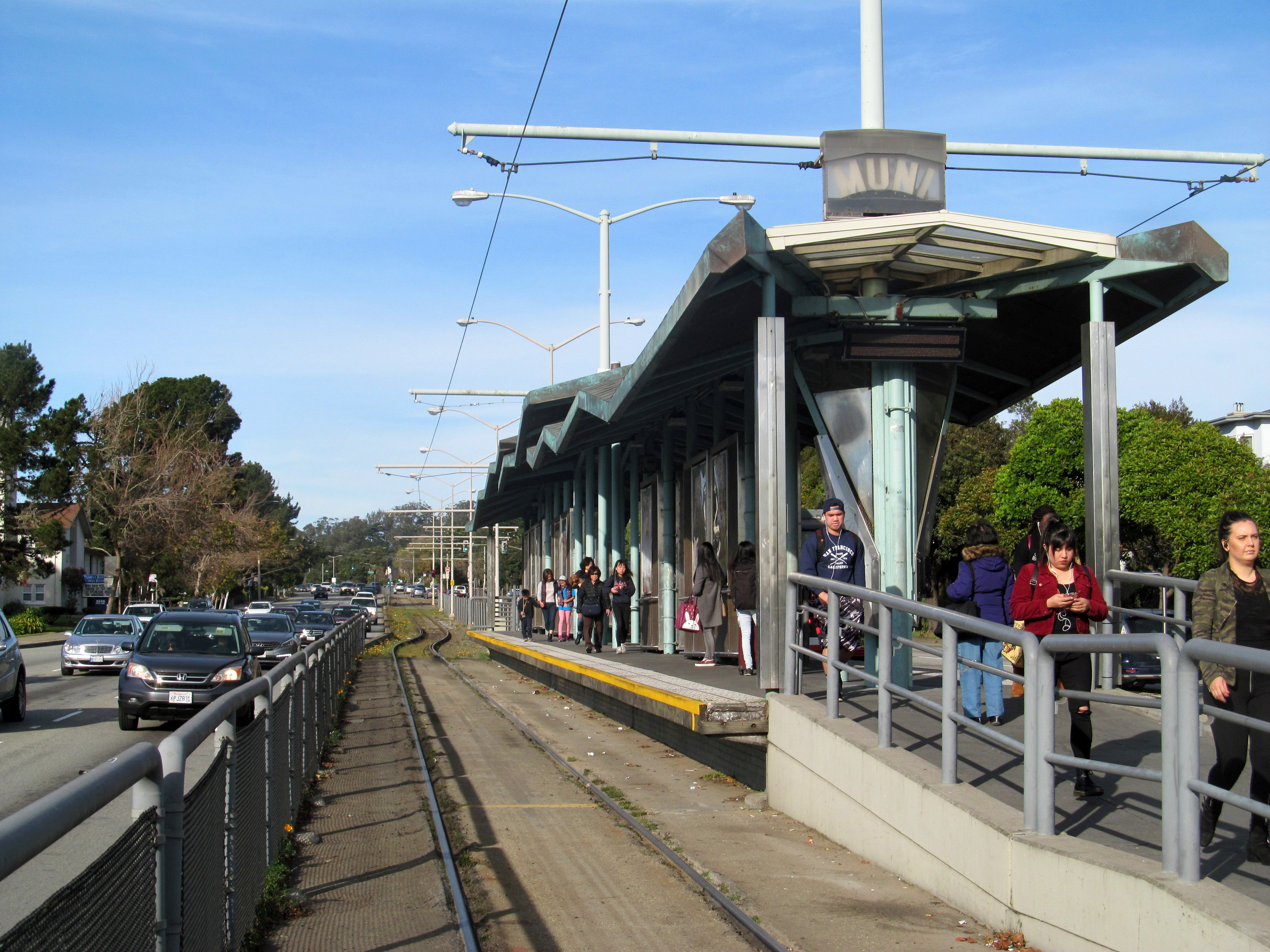 Stonestown Galleria station in December 2017